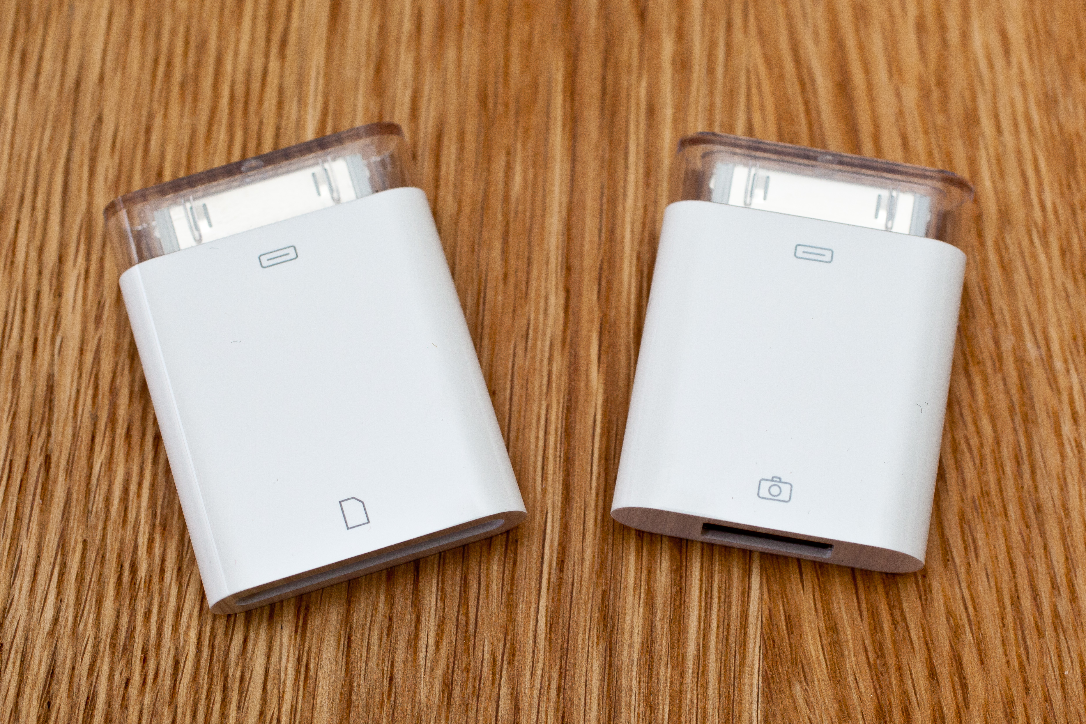 The iPad Camera Connection Kit